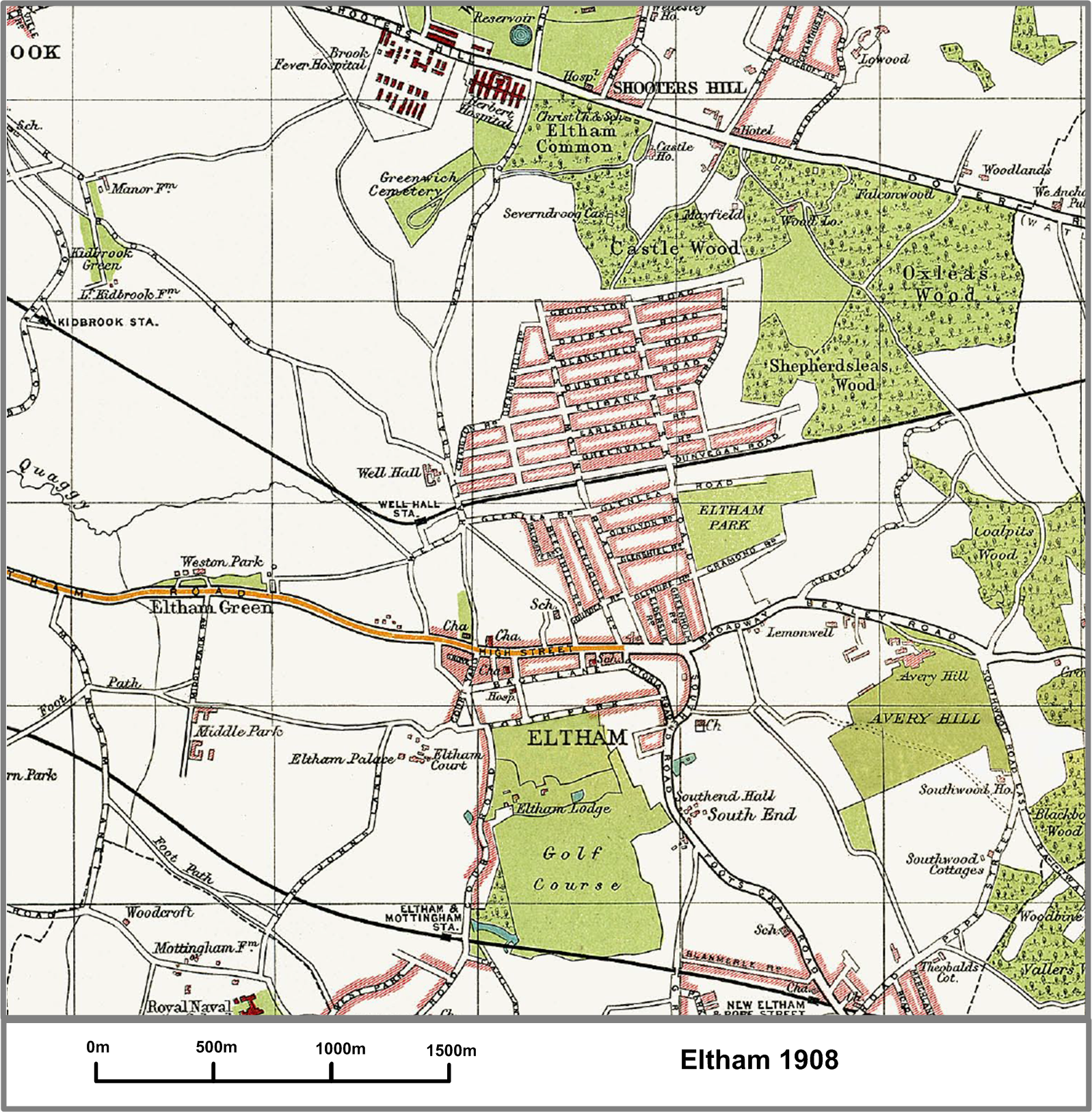 Map of Eltham in 1908. Details added in Visio Sept 2014